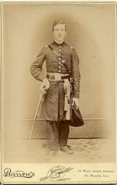 This is an image of Lt. Allan H. Dougall (1836-1912) of the 88th Regiment Indiana Infantry. He was awarded the Medal of Honor in 1897 for his service in the Battle of Bentonville in North Carolina in 1865. The image is from the Indiana State Library's collection of Civil War photographs. The date of the image is inferred from the period during which the photographer Frank R. Barrows maintained his studio at 18 West Berry St. in Fort Wayne, Ind., before moving to a different location.